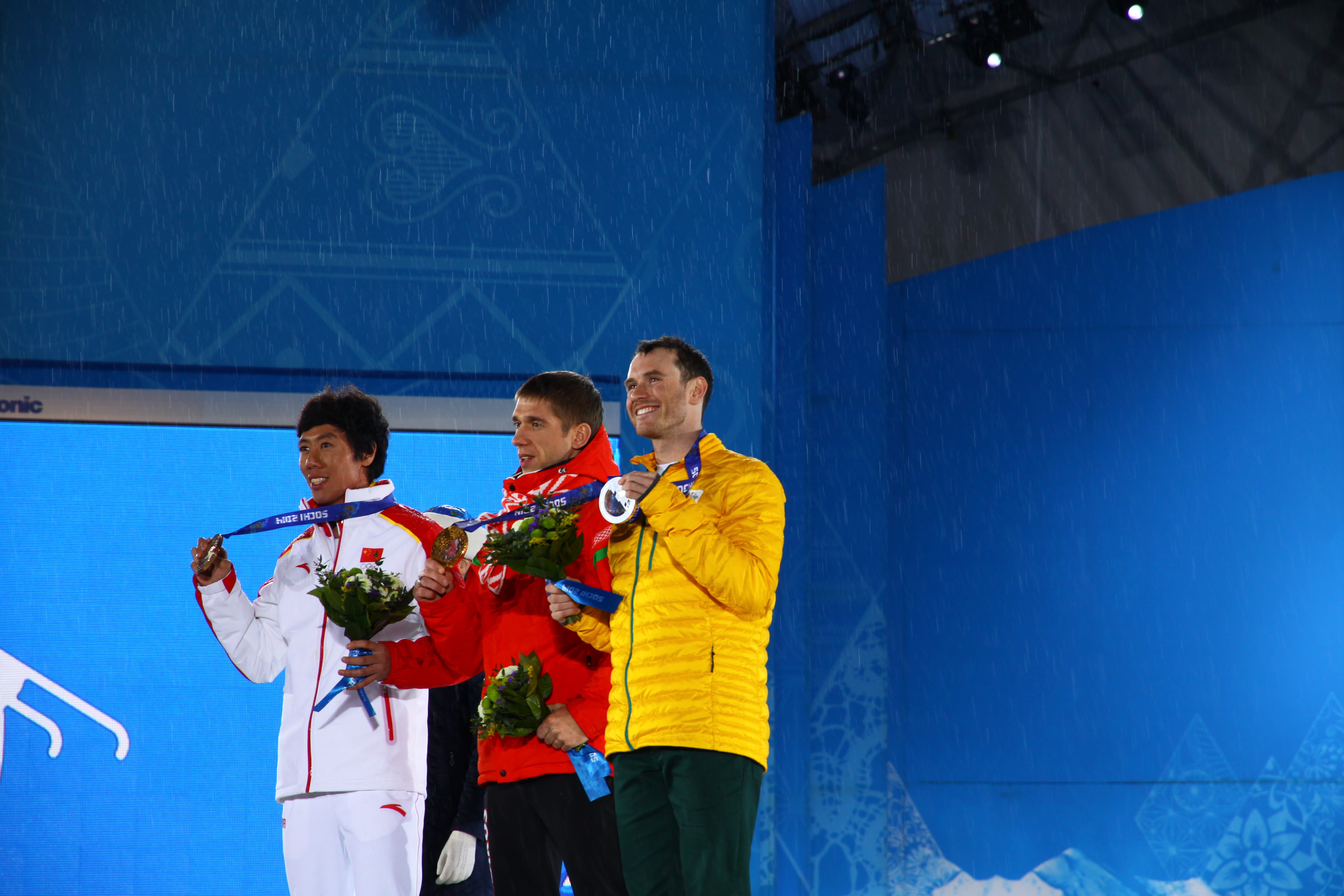 Men's Aerial Skiing winners at the Sochi 2014 Olympic Winter Games. Anton Kushnir (Gold), David Morris (Silver), Jia Zongyang (Bronze)